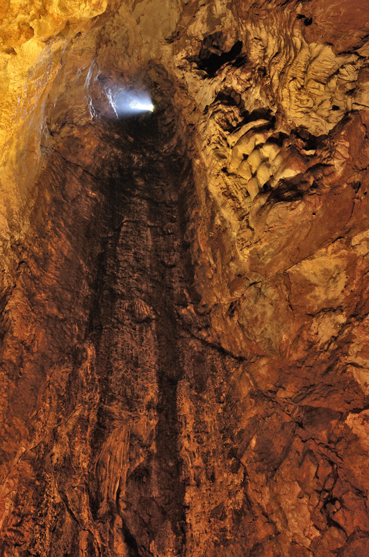 Underground pitch in the pit cave Haviareň, Little Carpathians, Slovakia